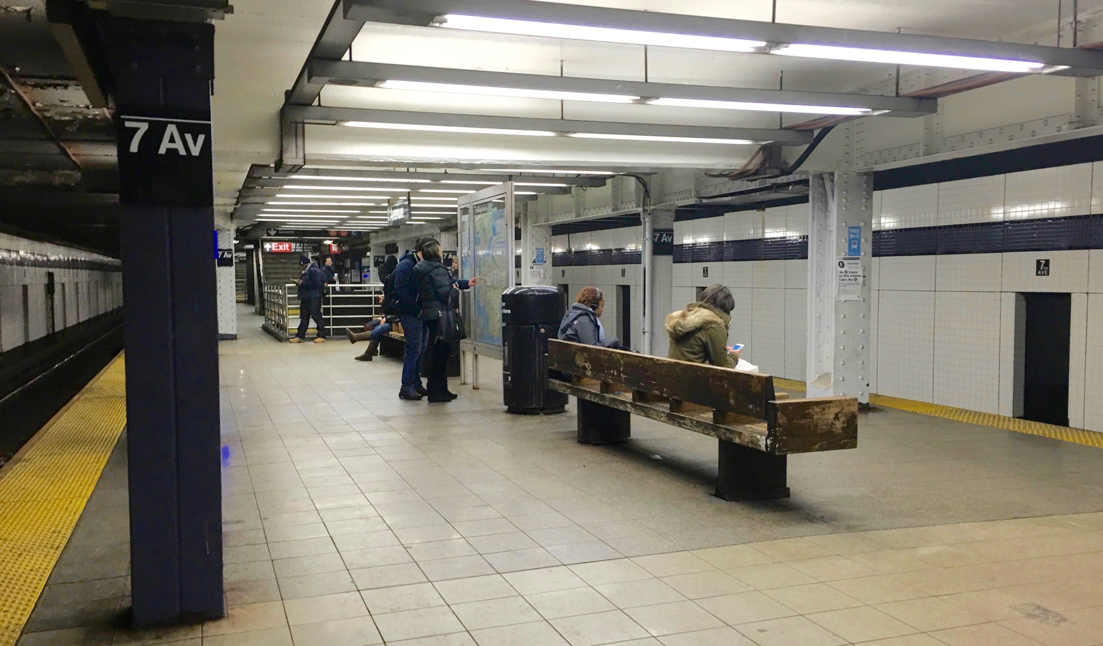 Upper level platform at 7th Avenue on the B/D/E.